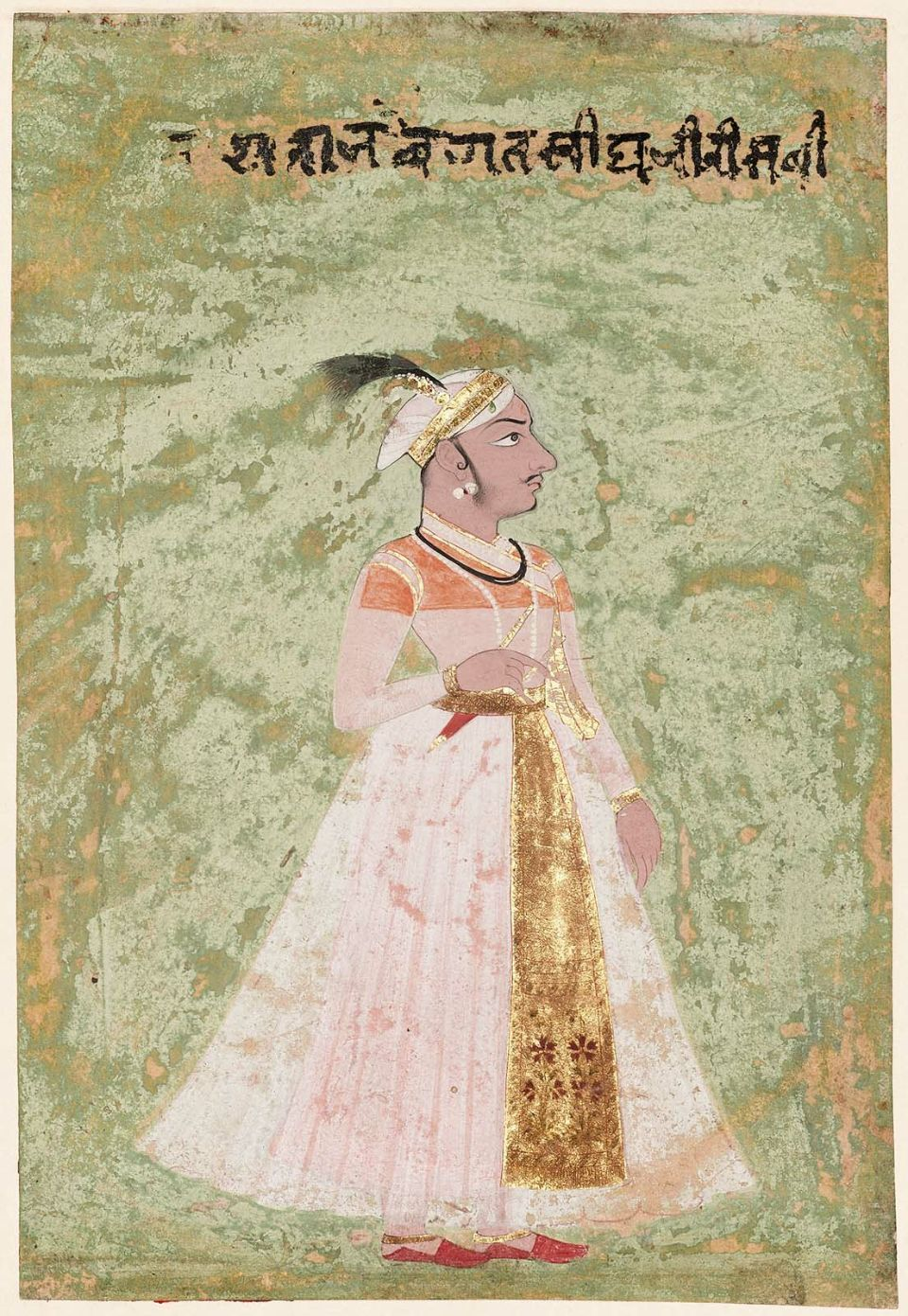 Portrait of Jagat Singh II of Mewar.